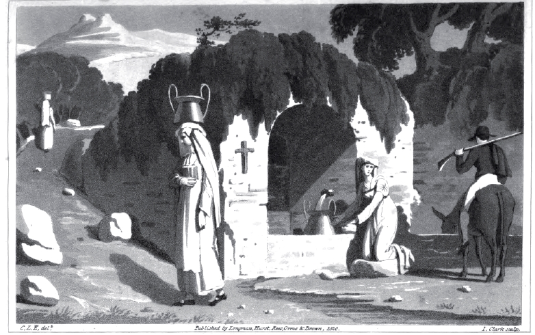 women collecting water at Guadagnolo (near Rome), now fraction of Capranica Prenestina begin of XIX century Donne che raccolgono l'acqua alla fontana (Guadagnolo, ora frazione di Capranica prenestina vicino Roma)), stampa di inizio secolo XIX (1820)